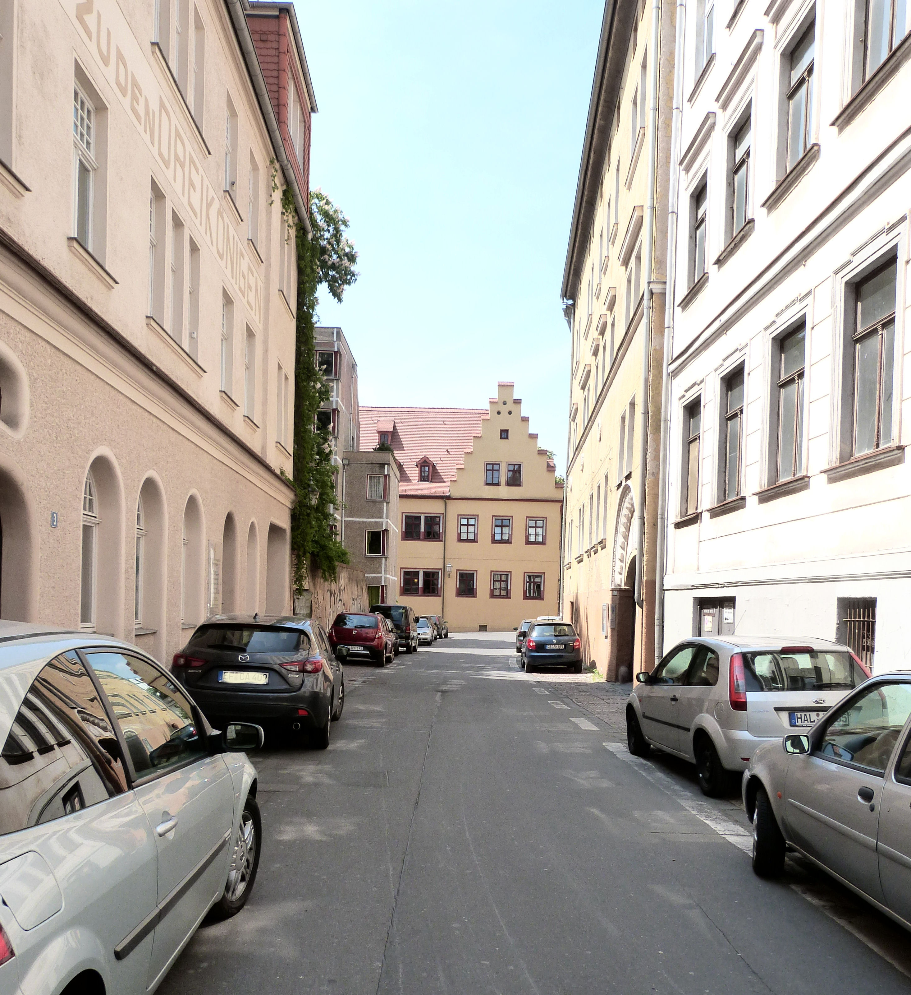 Street Kleine Klausstrasse in Halle (Saale), view to the square Domplatz